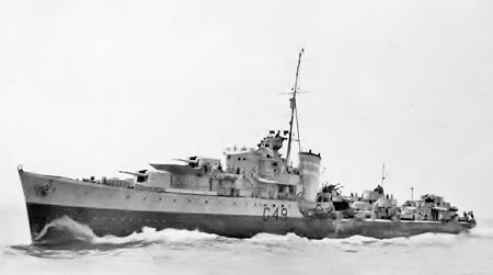 N Class Destroyer HMAS Norman of the Royal Australian Navy (original AWM Caption: Port quarter view of the N Class Destroyer HMAS Nepal which was one of five ships of this class commissioned into the Royal Australian Navy in the period 1941-1942, and served throughout the Second World War does not conform with pennant number G49